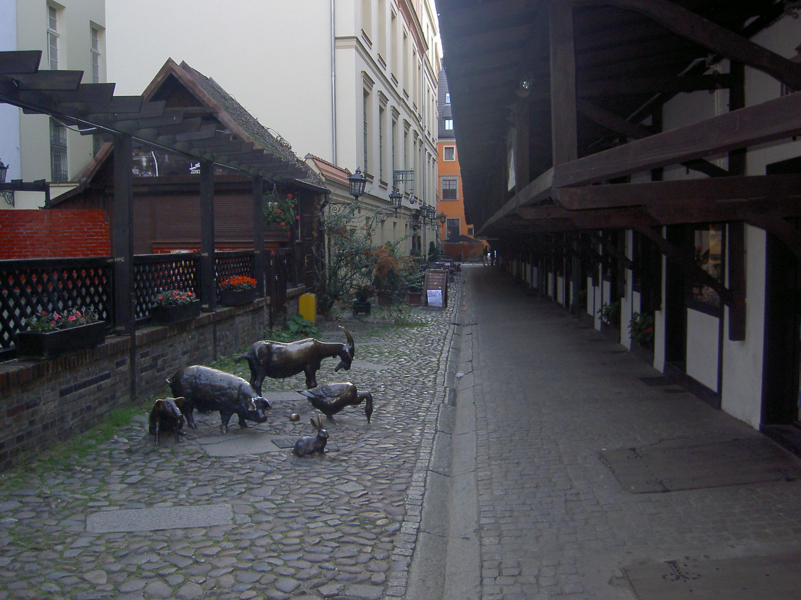 Jatki Street in Wrocław